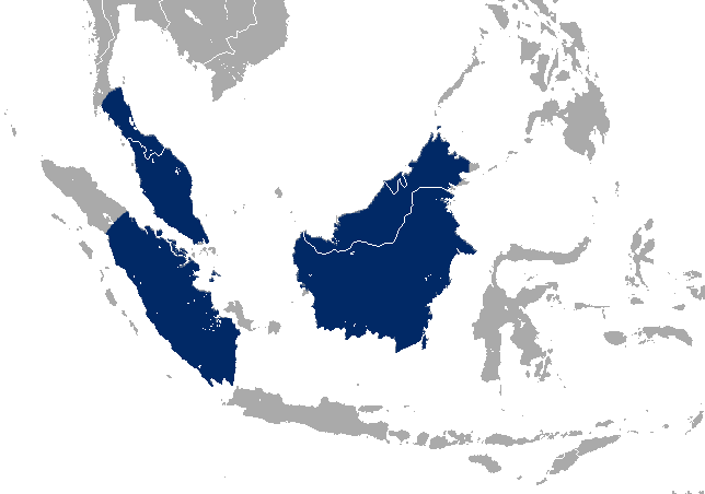 Pygmy Treeshrew (Tupaia minor) range